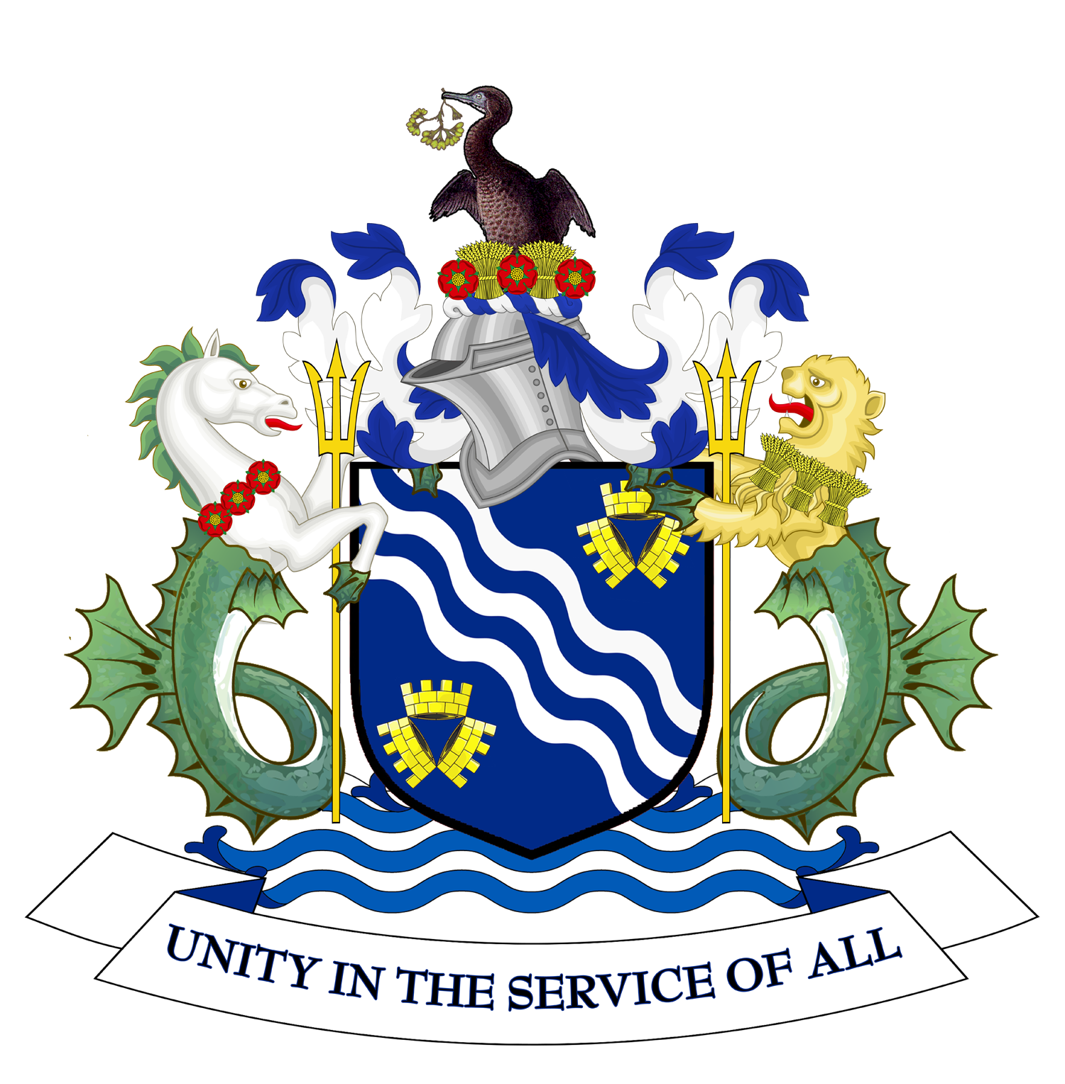 The Coat of arms of Merseyside County Council, the top-tier authority for the metropolitan county of Merseyside from 1974 to 1986. The blazon is: ARMS: Azure three Bendlets wavy Argent between six Mural Crowns three and three conjoined in pile Or. CREST: On a Wreath of the Colours rising from a Wreath of Roses Gules barbed and seeded proper and Garbs Or placed alternately a Cormorant wings displayed holding in the beak a Branch of Seaweed called Laver proper. SUPPORTERS: On the dexter side a Sea Horse proper gorged with a Wreath of Roses Gules barbed and seeded proper and on the sinister side a Sea Lion proper gorged with a Wreath of Garbs Or each supporting a Trident Or all upon a Compartment a Water barry wavy Argent and Azure.